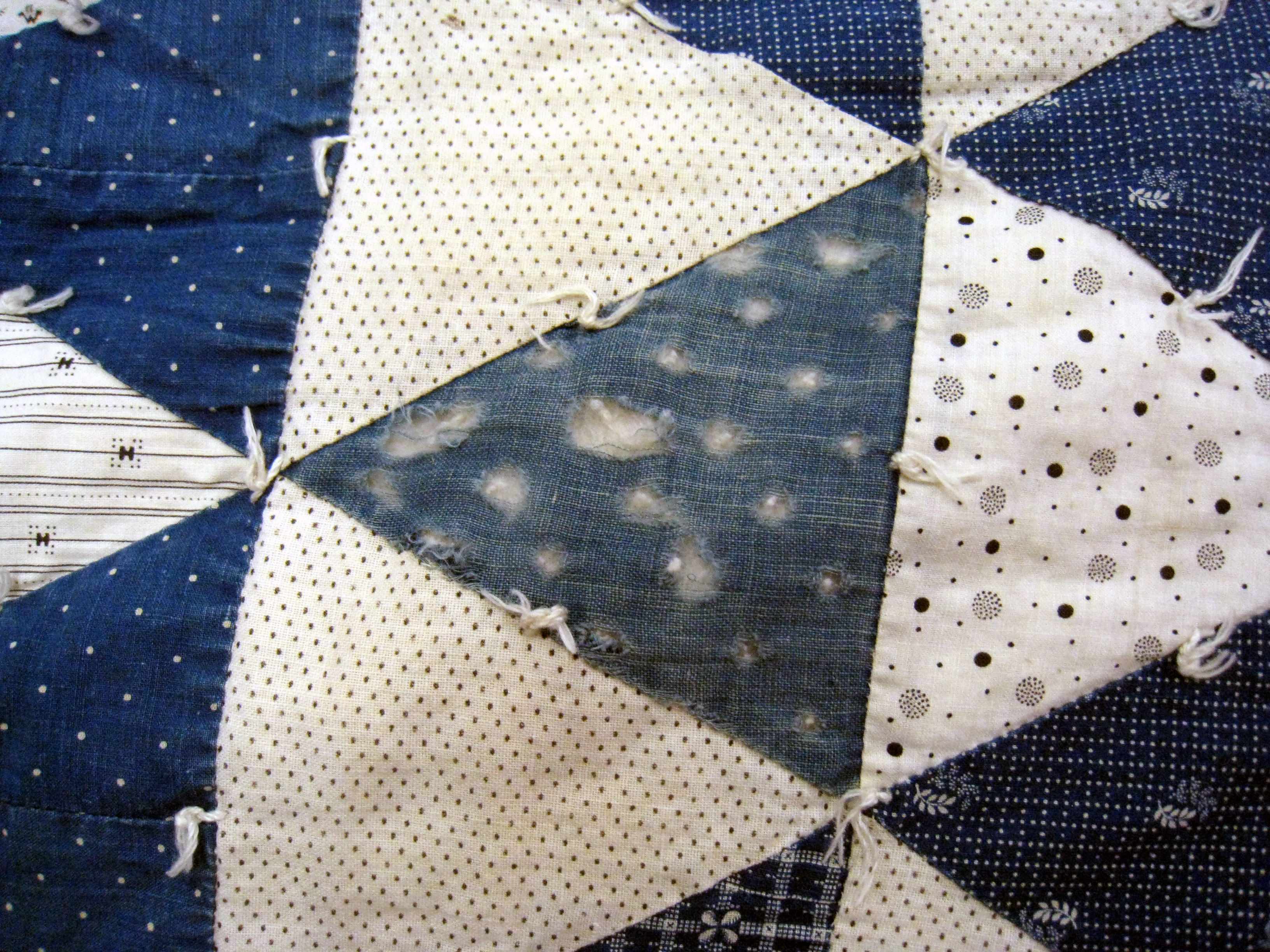 Detail of a vintage patchwork quilt shows dye rot in one of the fabrics. Over time, heavy metals (some used as mordants to fix the dyes) in the dark colored dye used for the pattern have caused the fabric to disintegrate, leaving the batting showing through. Taken at the Pajaro Valley Quilt Association show at the Santa Cruz county fairgrounds in Watsonville, California.